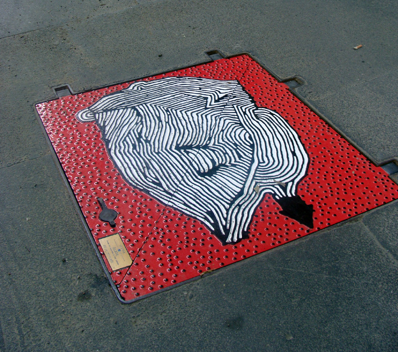 Manhole cover in Milano, Painted by 108.